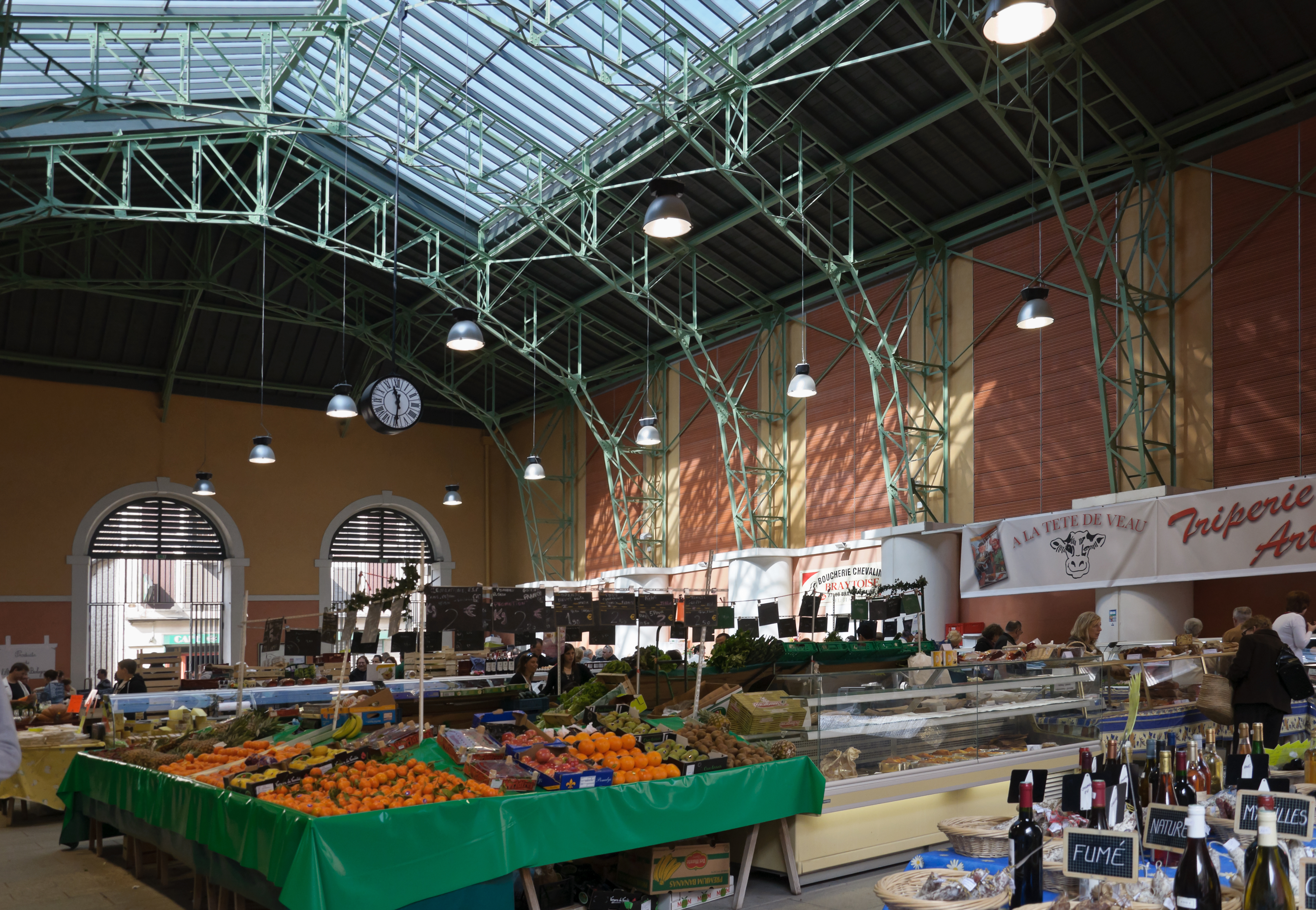 Provins, Seine-et-Marne, France: the covered market taking place in the Halle du Minage.